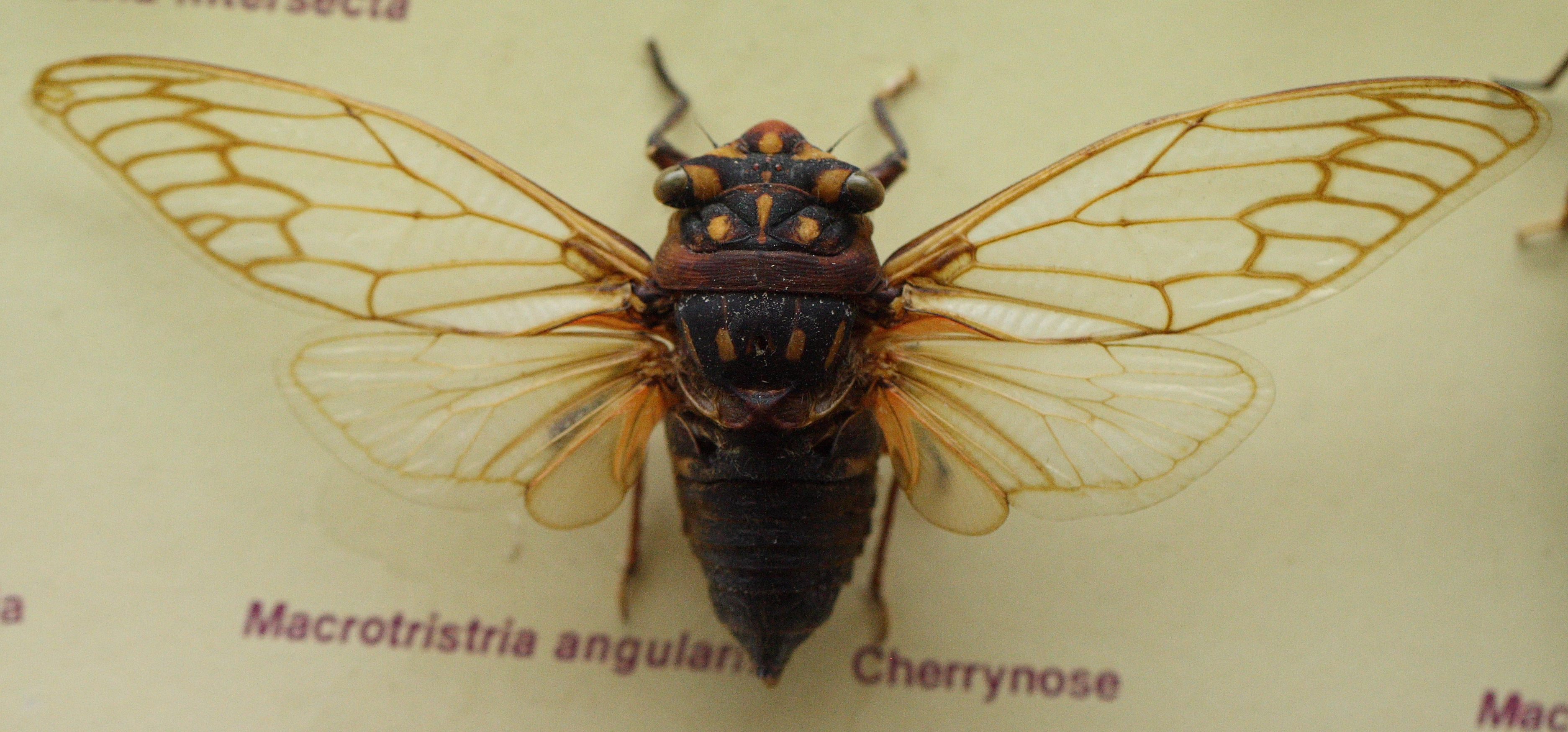 Specimen in the Australian Museum cicada display.